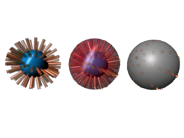 This is a SpaceMETA Lunar Rover Solitaire Module , where we can see the NITINOL Legs to create infinity motion